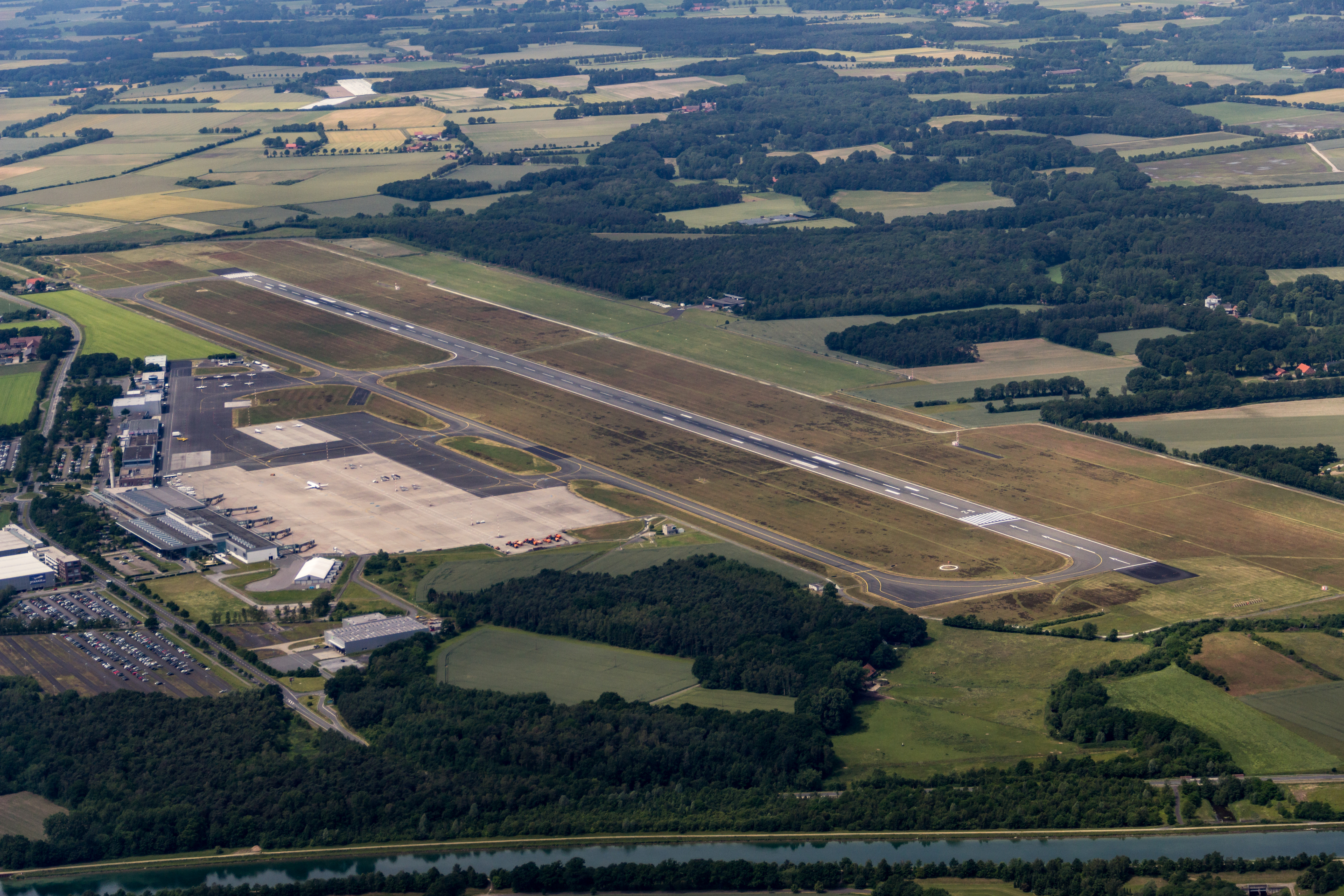 Airport Münster-Osnabrück, Greven, North Rhine-Westphalia, Germany